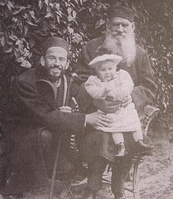 Lev Lvovich Tolstoy with his father and his son Pala